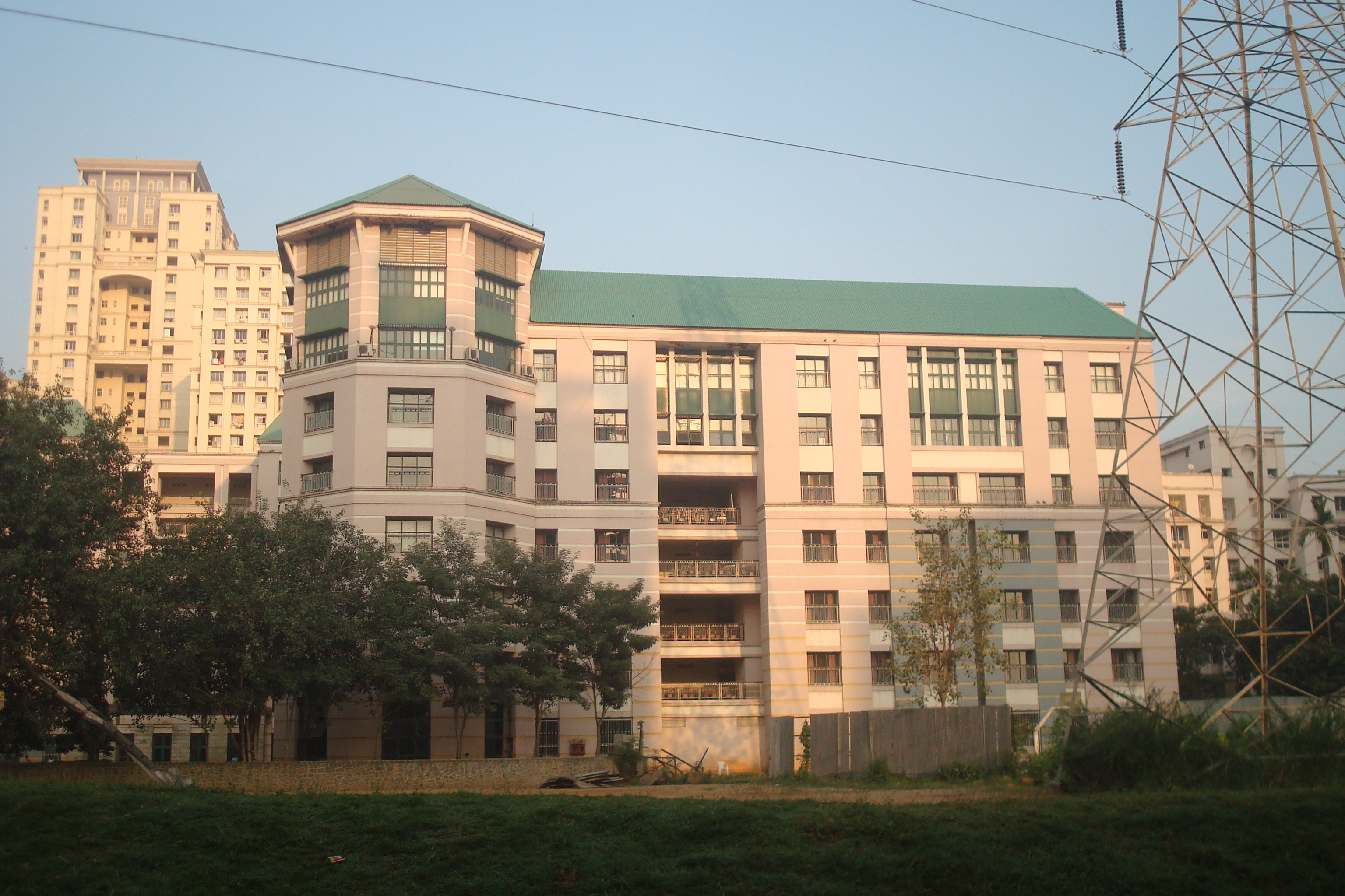 Hiranandani Foundation School, Thane (backside)